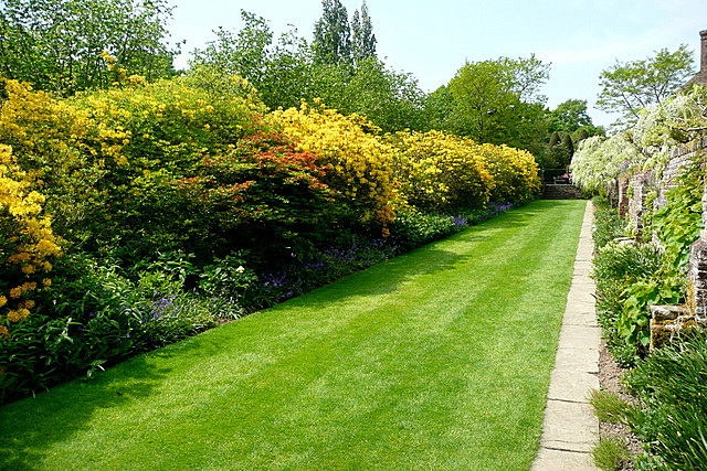 Walk at Sissinghurst Castle Gardens